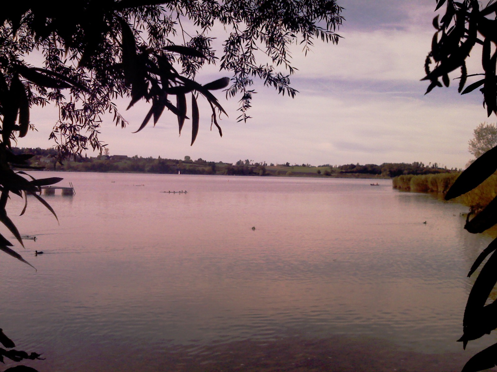 Lake of Pfäffikon with viem from Lido Wetzikon to SeegräbenEsperanto: Lago de Pfäffikon kun rigardo de strando de Wetzikon al Seegräben